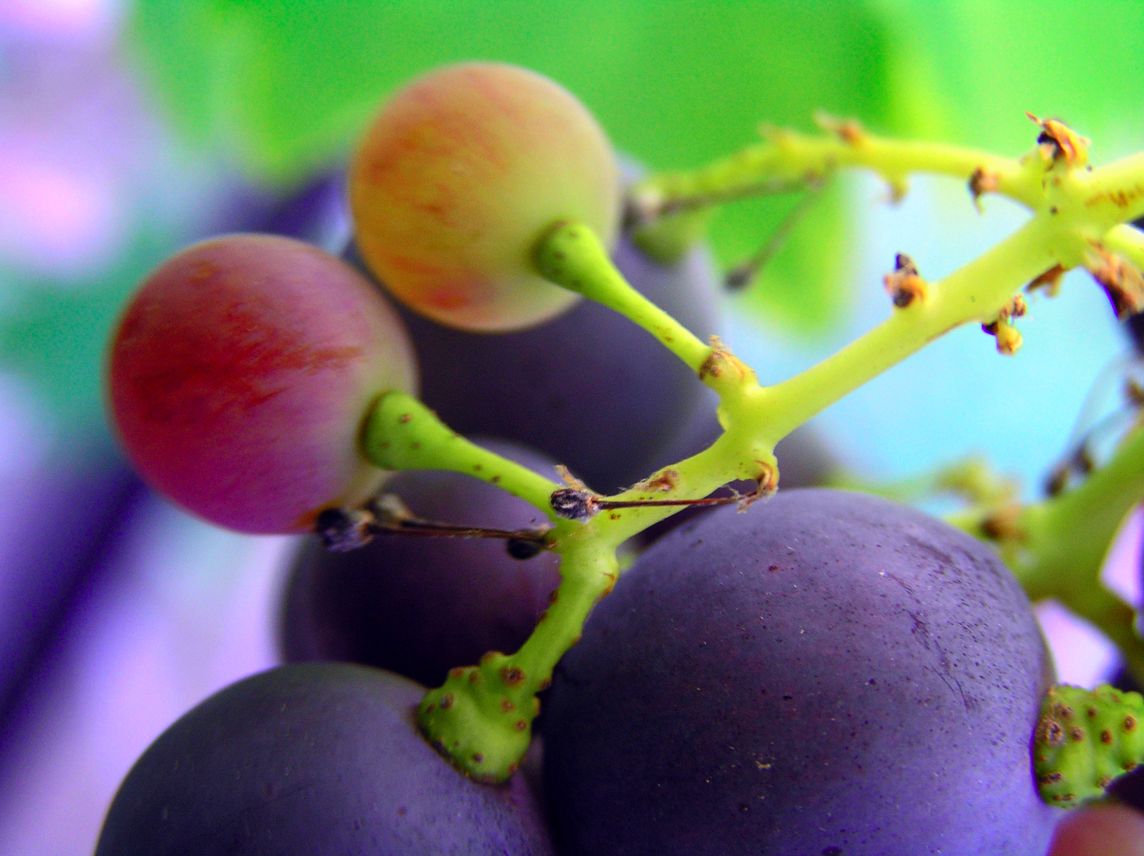 Wine grapes that still have green stems which means that it hasn't finished the ripening process towards "physiological ripeness" when the stems with turn harder and darker.